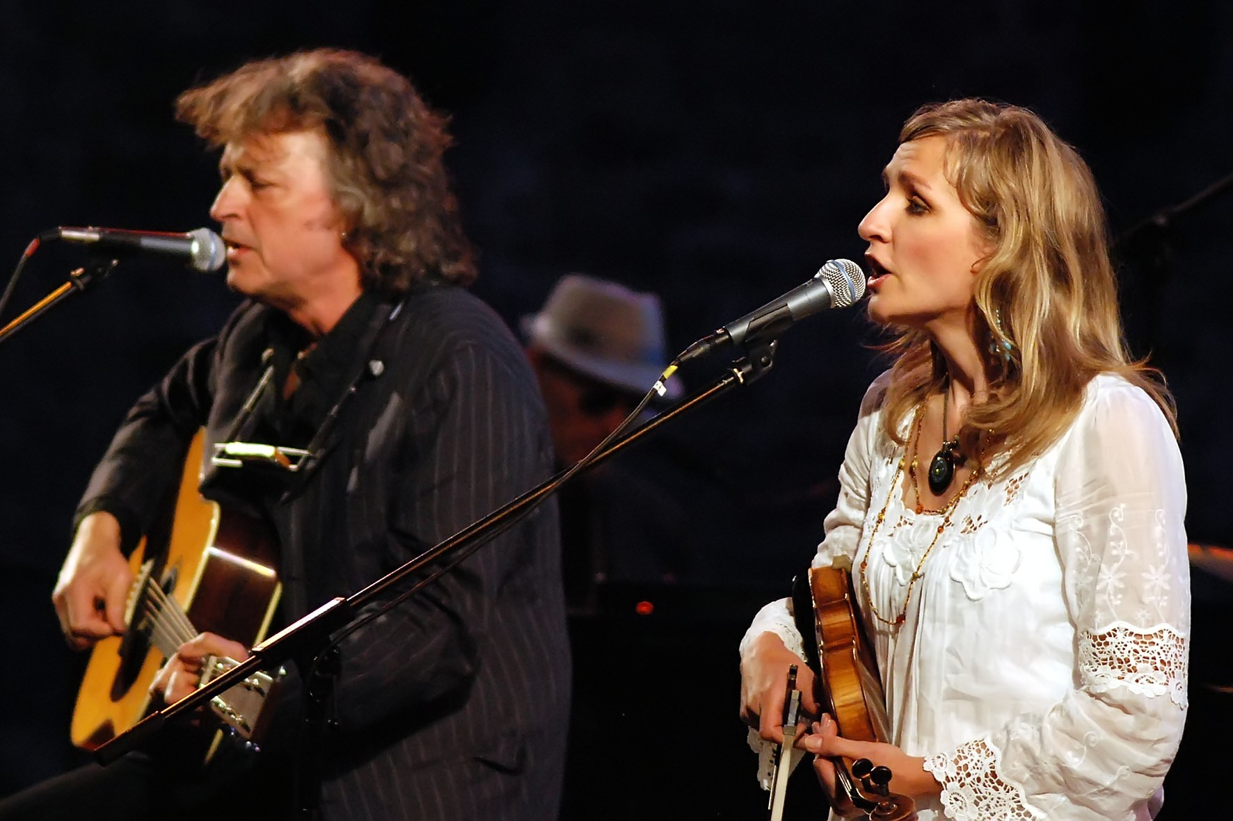 Anne de Wolff